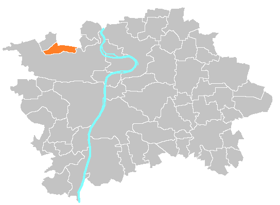 Location map of municipal district Prague-Nebušice